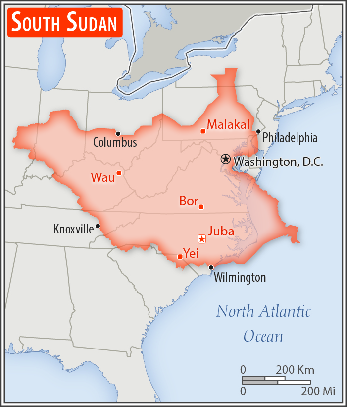 Comparison of the areas of two country. The area of South Sudan with biggest cities (red) overlay the area of the United States of America (gray background).